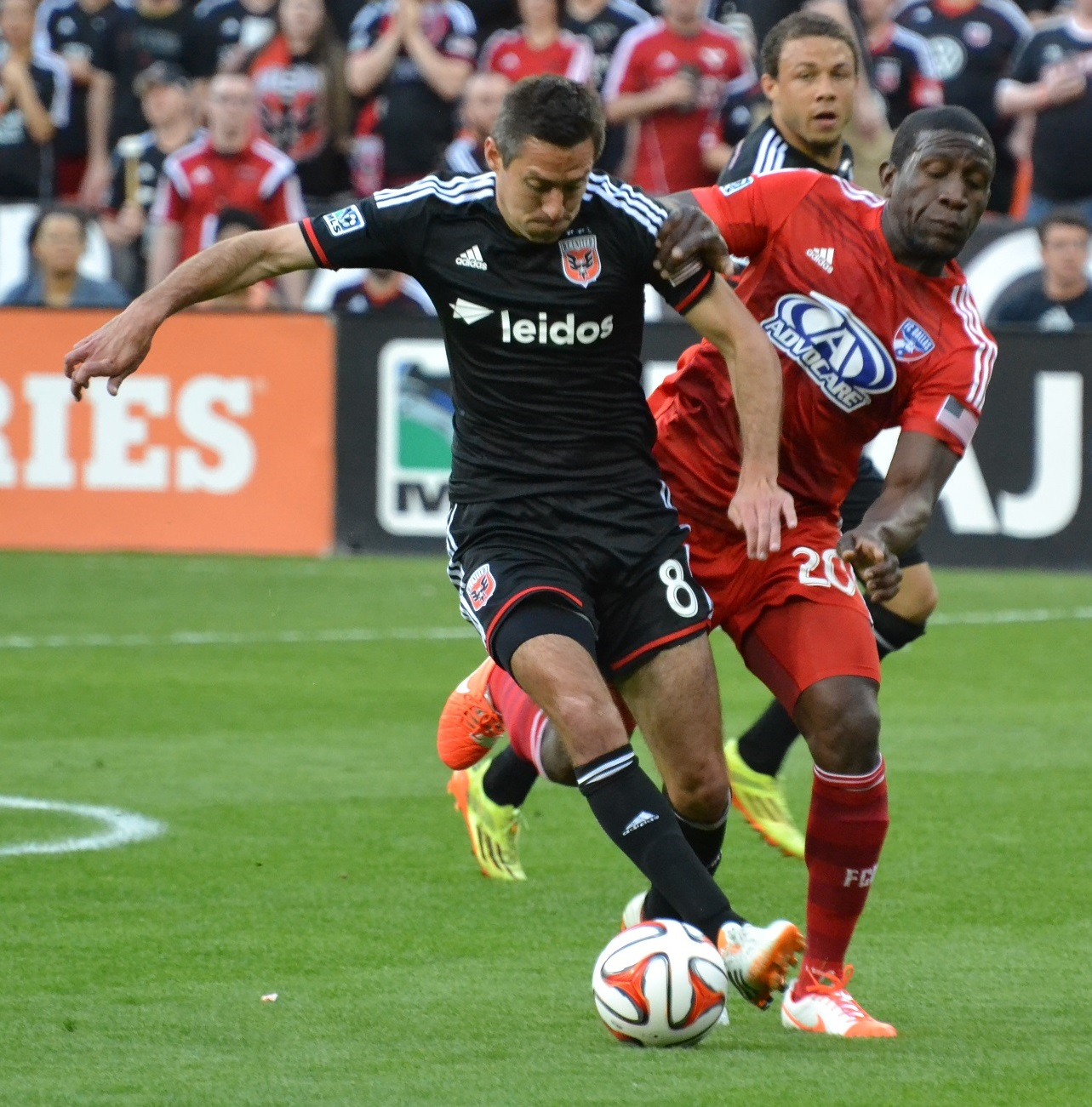 Davy Arnaud playing for DC United